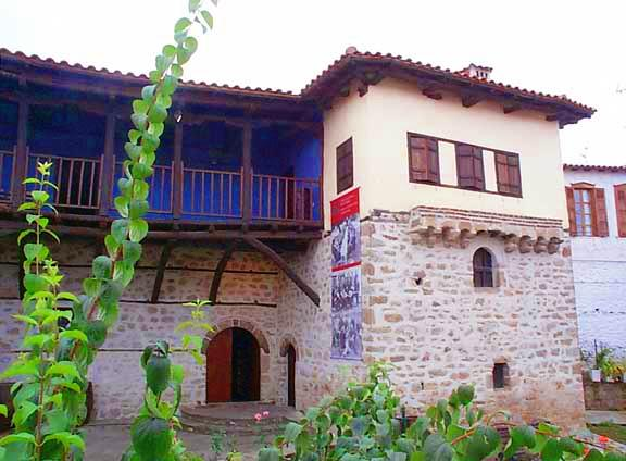 Outside view, image from the History and Folklore Museum, Arnaia, Central Macedonia, Greece